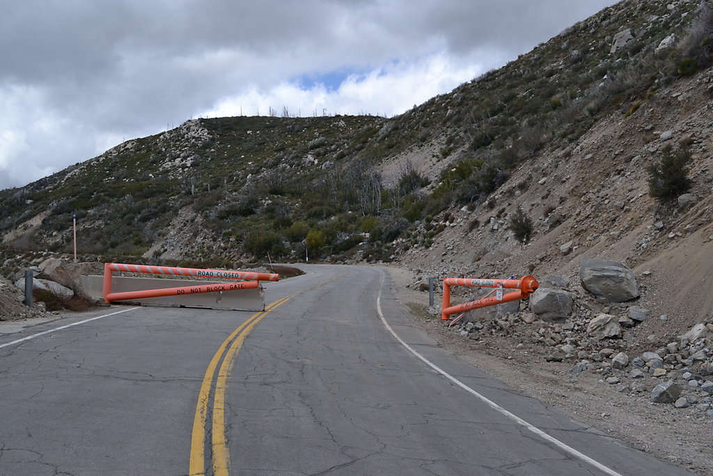 Southern closure of California Highway 39 in the San Gabriel Mountains Please credit Richard Ellis and